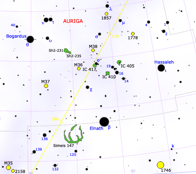 Map of southern region of Auriga.